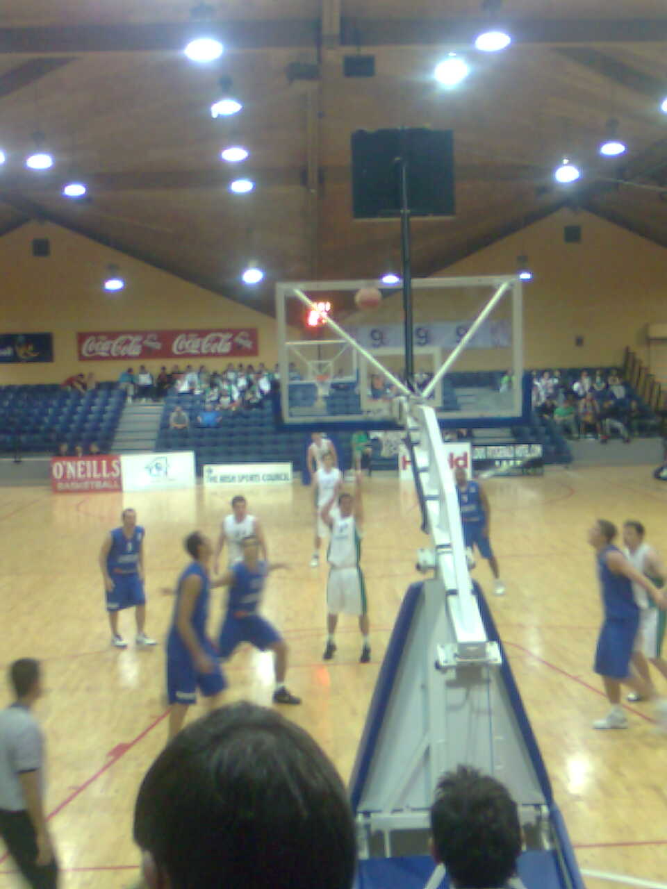 Ireland verusus Luxembourg Basketball